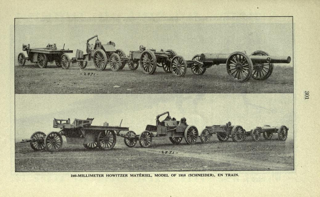 240 mm Howitzer M1918 in the Handbook of Artillery